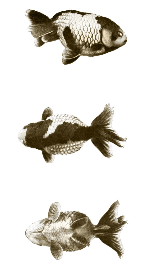 Animal - Fish - Varieties of Goldfish - Ranchu